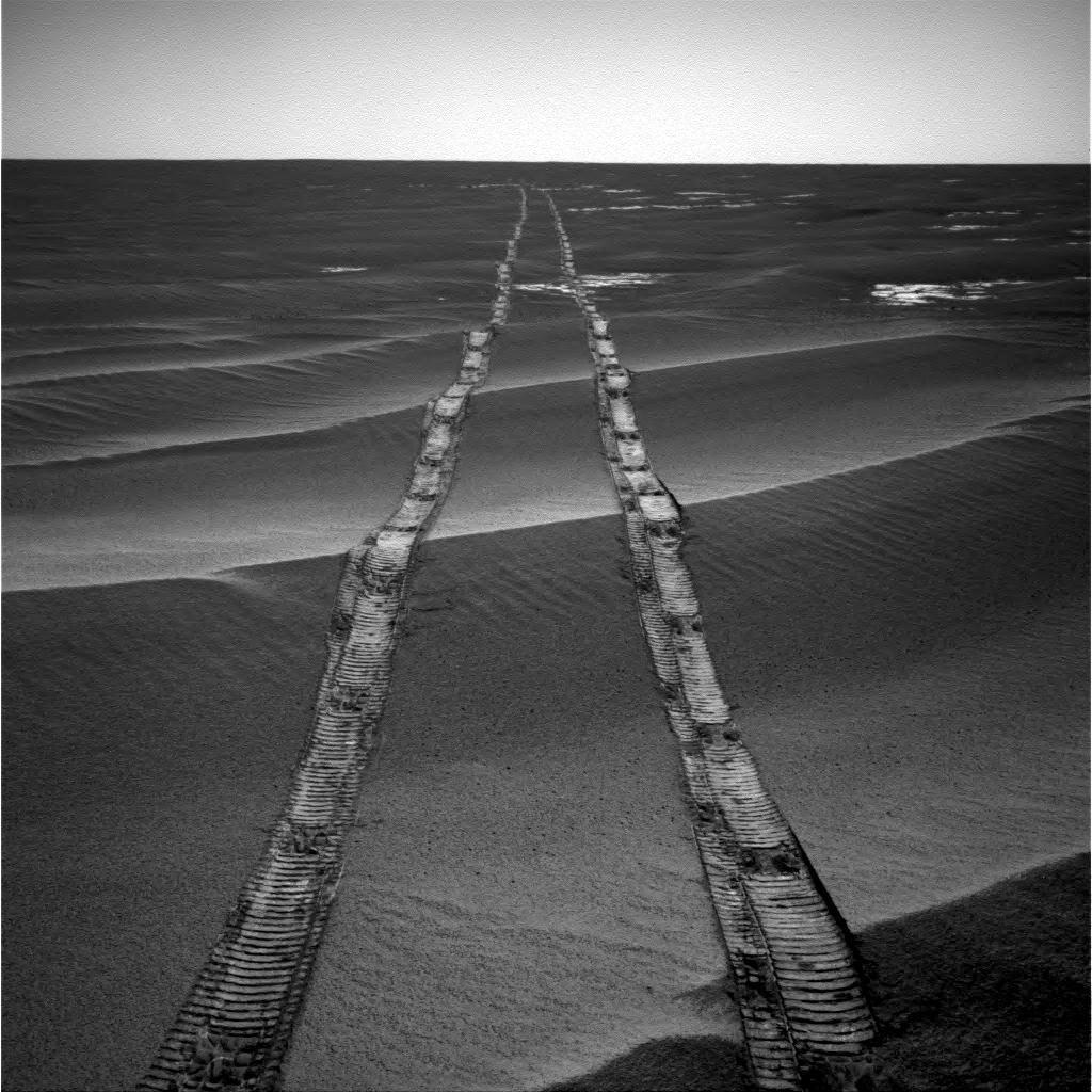 PIA22928: Looking Back on a Golden Opportunity In this navigation camera raw image, NASA's Opportunity Rover looks back over its own tracks on Aug. 4, 2010. NASA's Jet Propulsion Laboratory, a division of Caltech in Pasadena, California, manages the Mars Exploration Rover Project for NASA's Science Mission Directorate in Washington. For more information about Opportunity, visit and